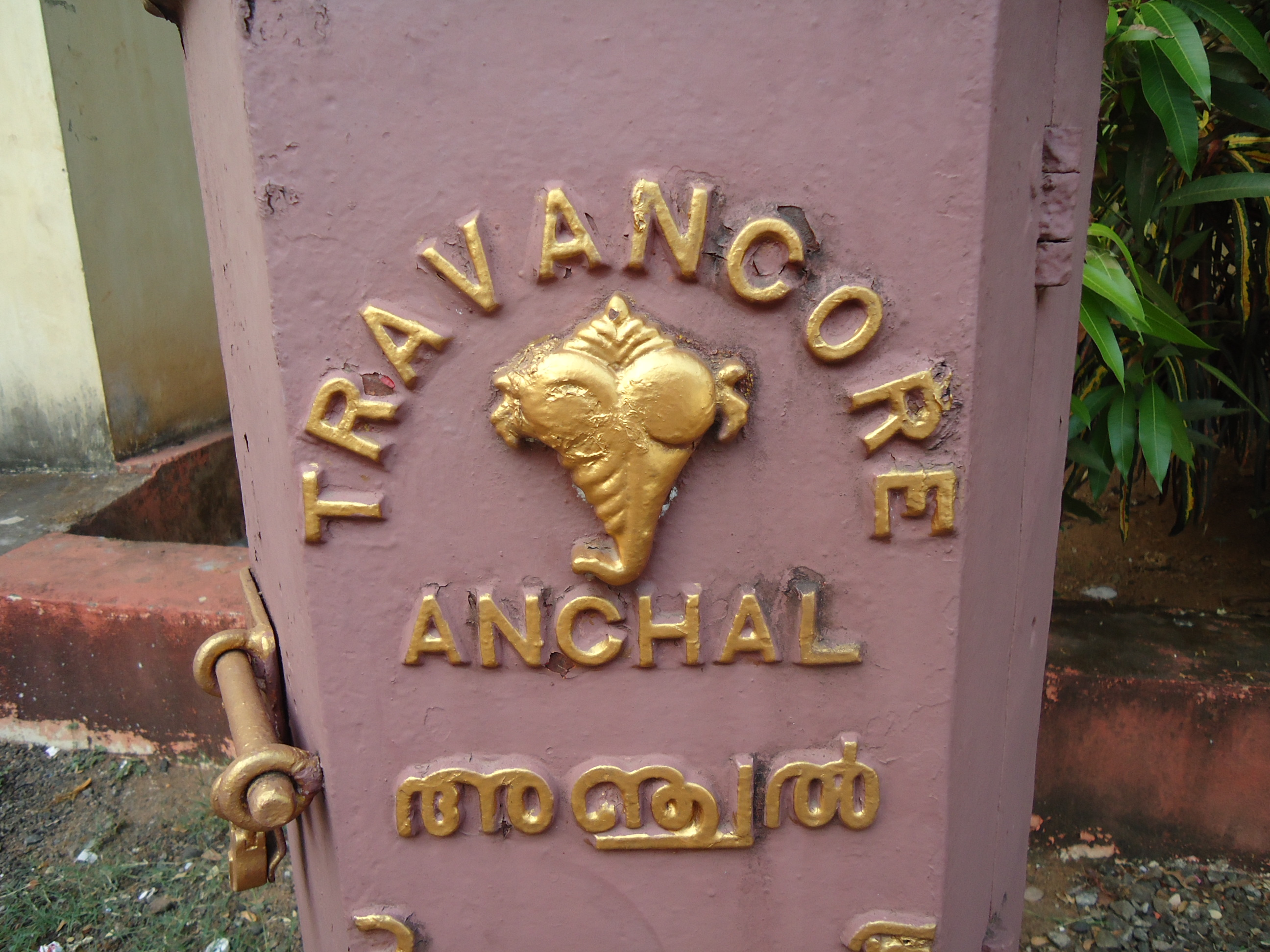 Travancore Anchal post box inscription, with Travancore Turbinella pyrum emblem